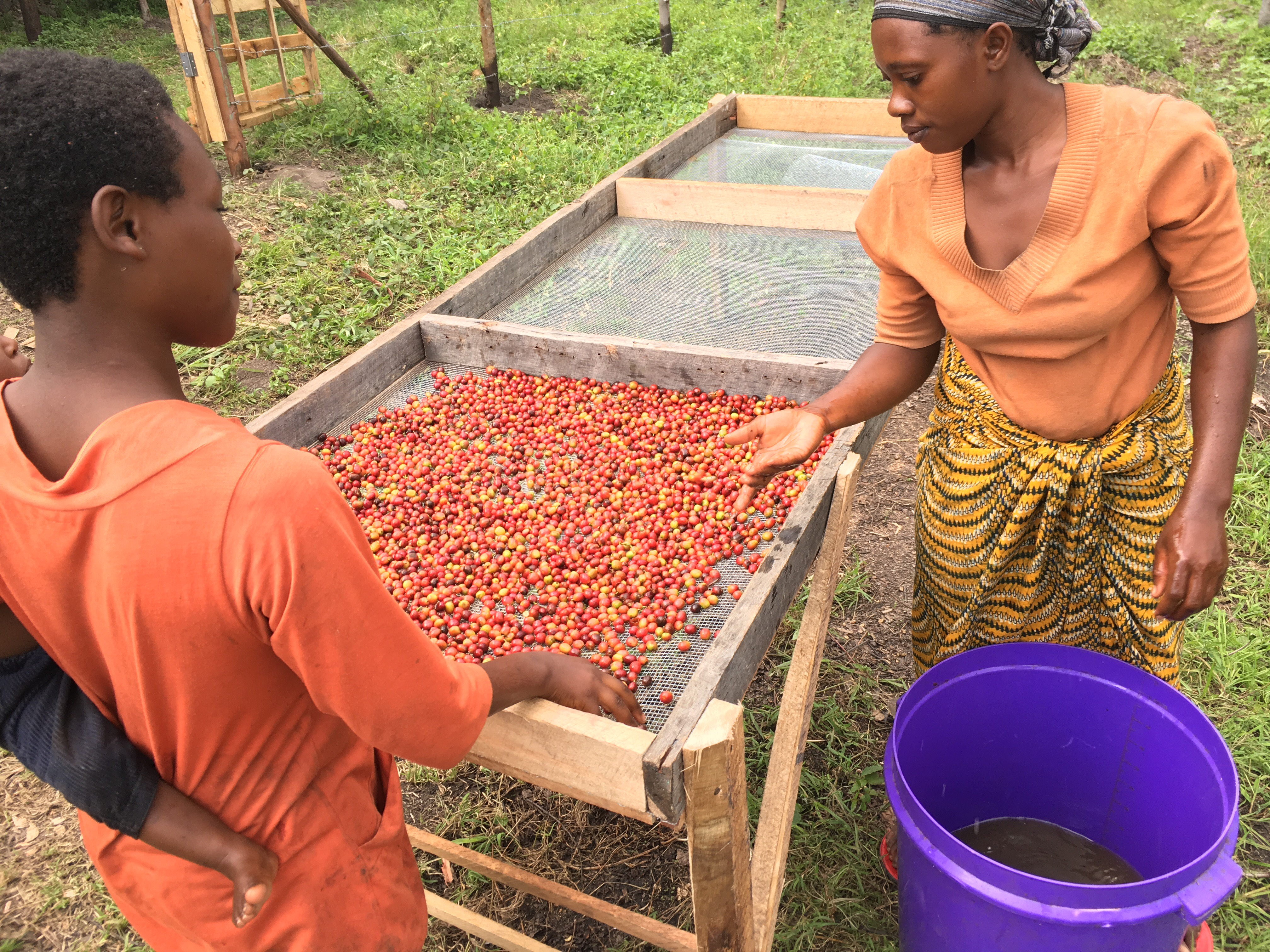 Women from the Bukonzo Organic Co-operative Union in the kasese region of Uganda preparing to dry their coffee cherries on the raised drying bed. This is an image of "African people at work" from Uganda